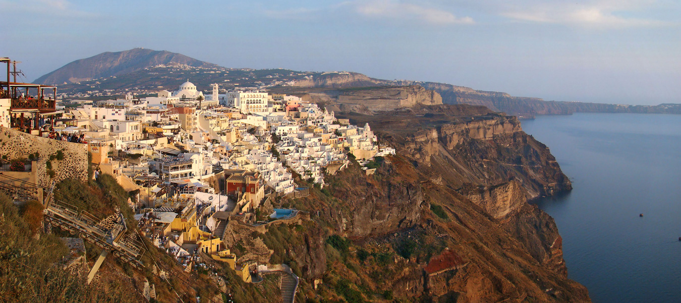 Fira, Santorini, Greece. 20:00:00.